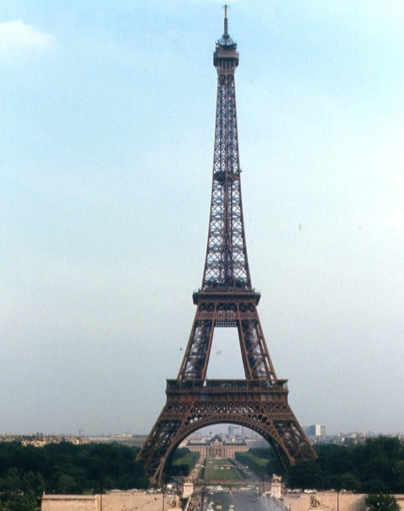 Eiffel Tower